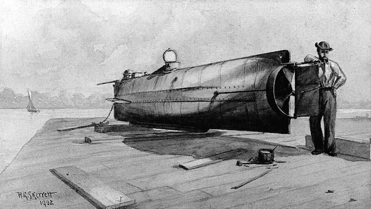 Confederate Submarine H.L. Hunley. Sepia wash drawing by R.G. Skerrett, 1902, after a painting then held by the Confederate Memorial Literary Society Museum, Richmond, Virginia